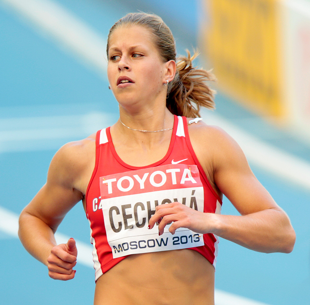 Katerina Cechova in 2013 World Championships in Athletics